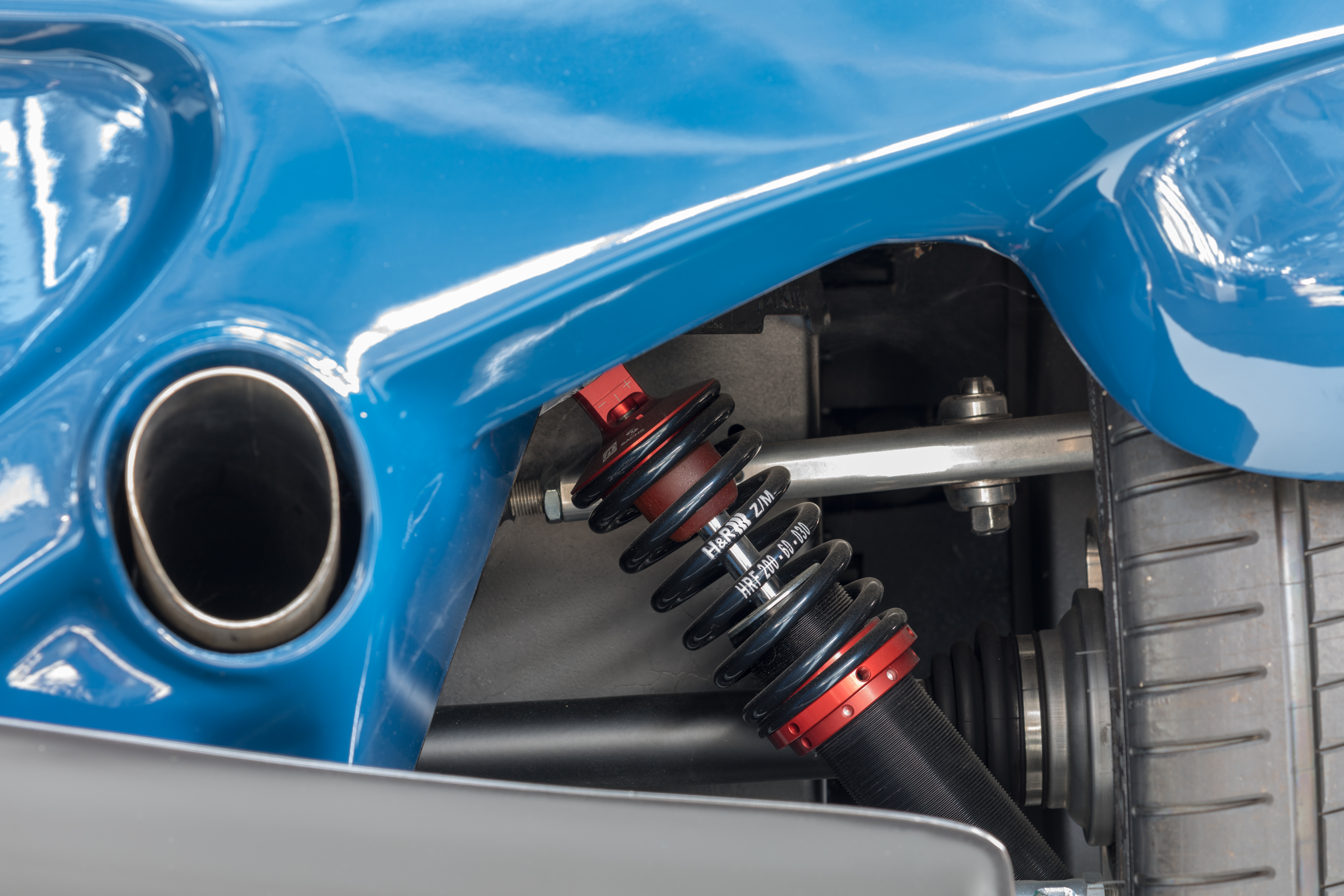 Wiesmann Spyder Concept at Wiesmann Sports Cars, Dülmen, North Rhine-Westphalia, Germany